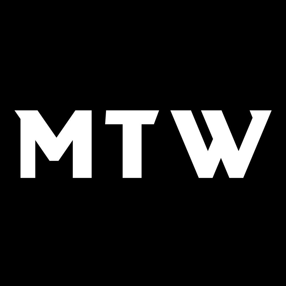 Logo of mymtw